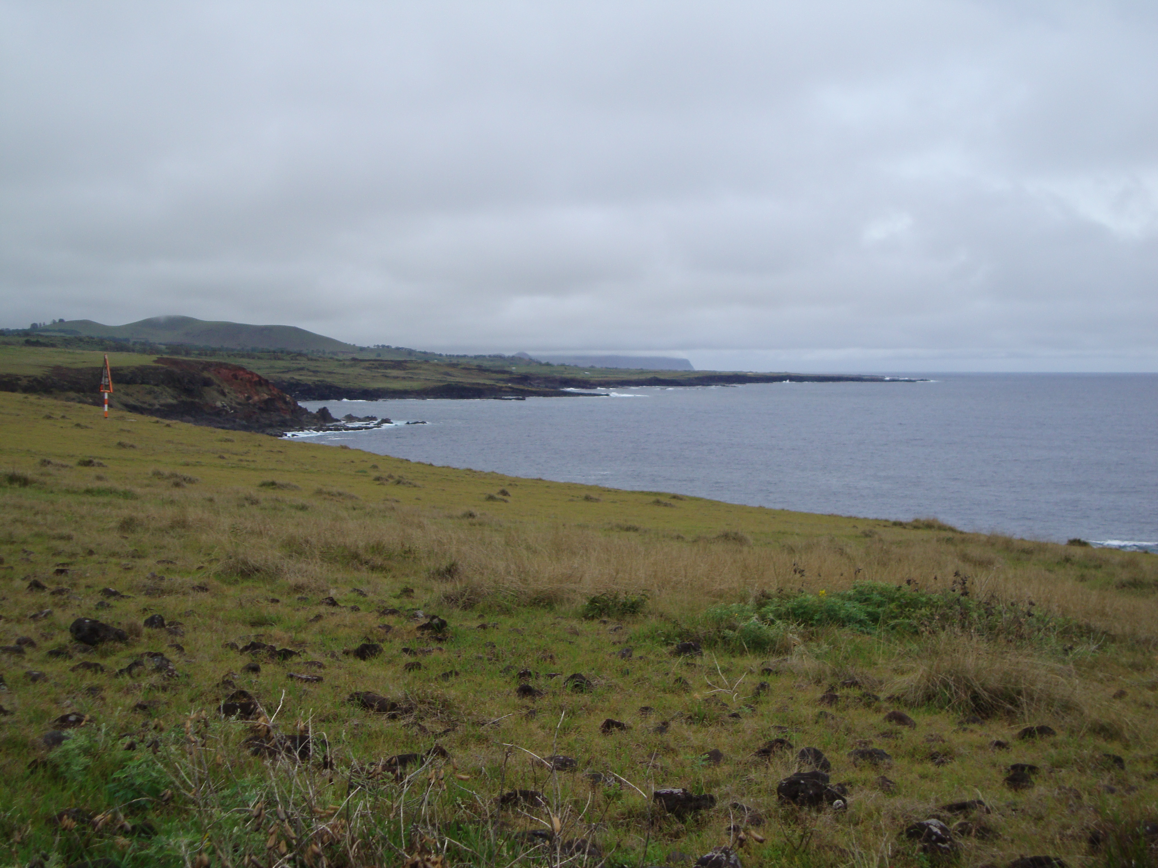 View of Easter Island's southern coastline, looking northeast from Vinapu.